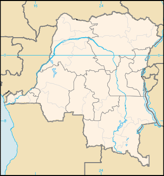 Blank map of Congo-Kinshasa